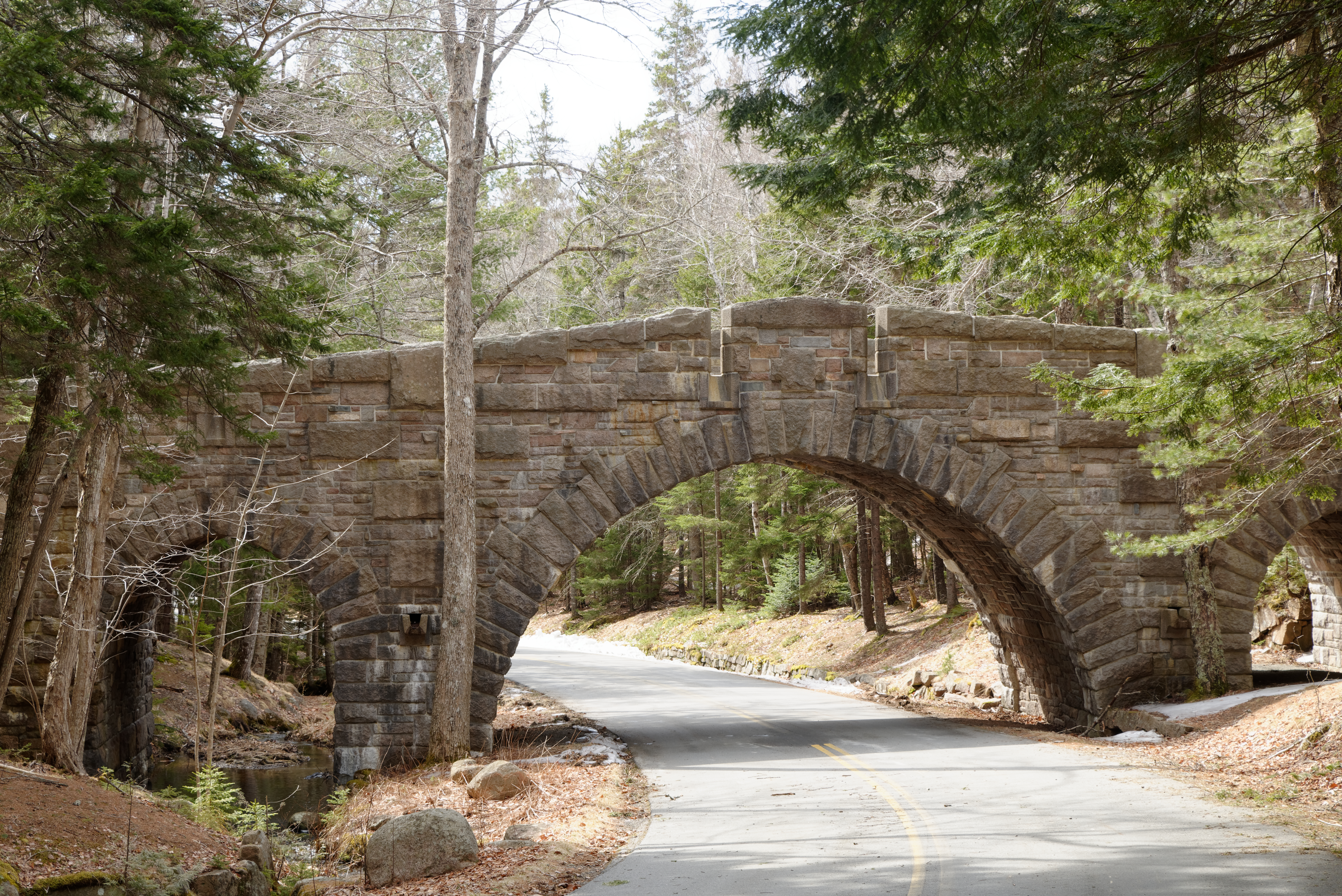 Bridge in Acadia National Park in Maine, United States - the Stanley Brook Bridge